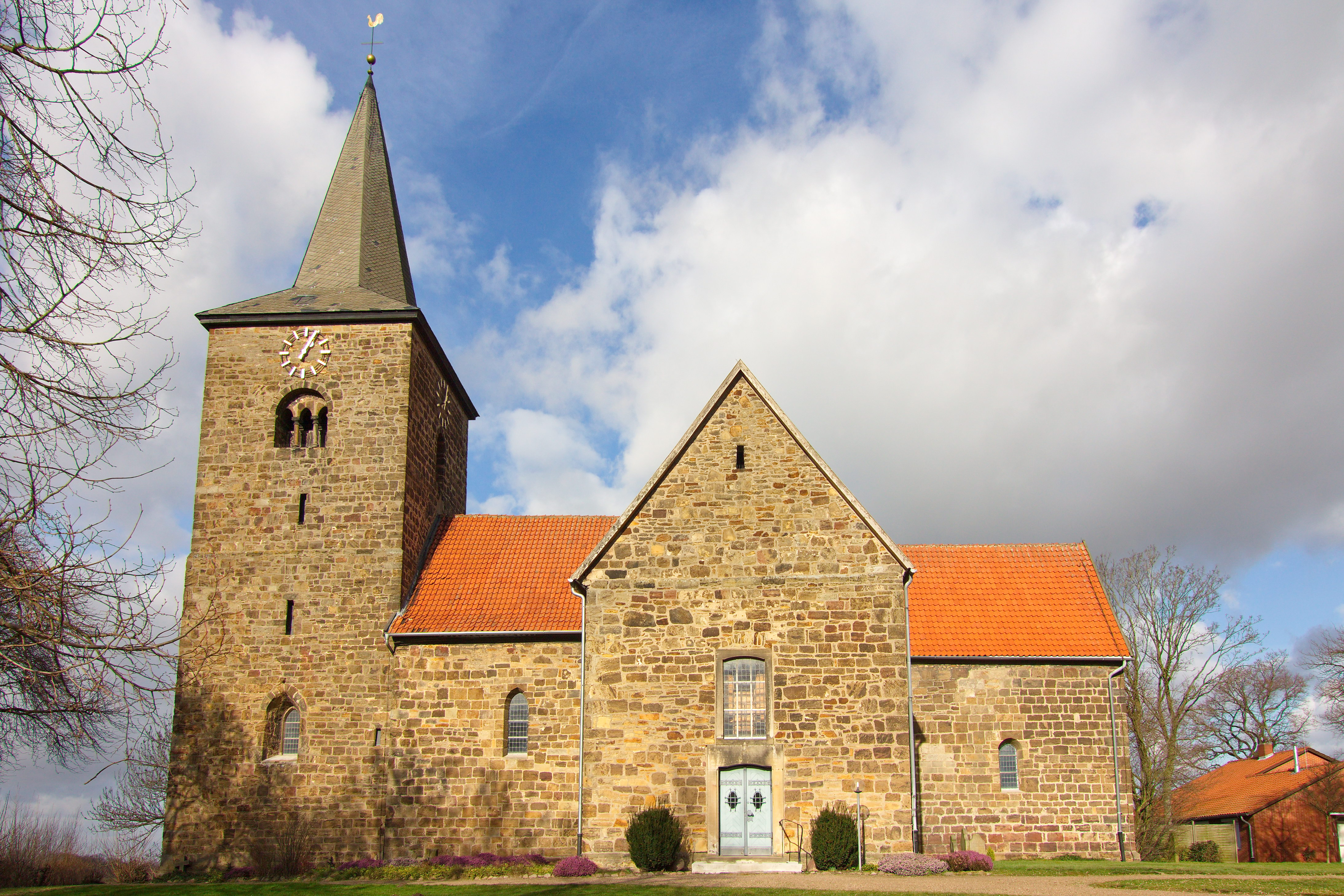 Evangelische Kirche in Windheim (Petershagen), NRW, Deutschland.